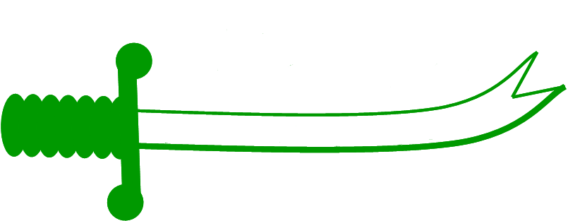 Standard depiction of Ali's sword Dhulfiqar in Shi'ism.